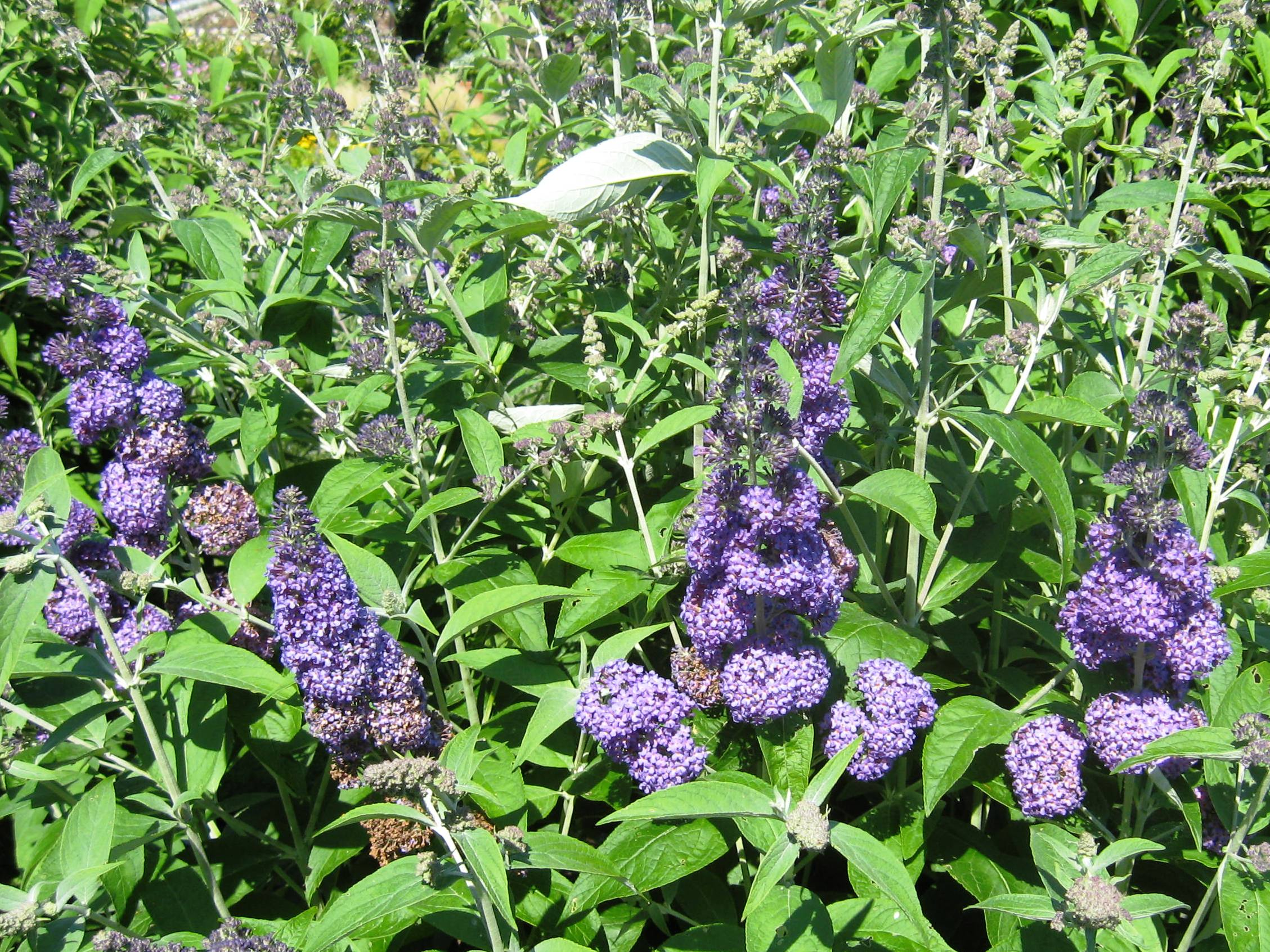 Buddleja davidii cultivar 'Dudley's Compact lavender', photo taken at Longstock Park Nursery, UK